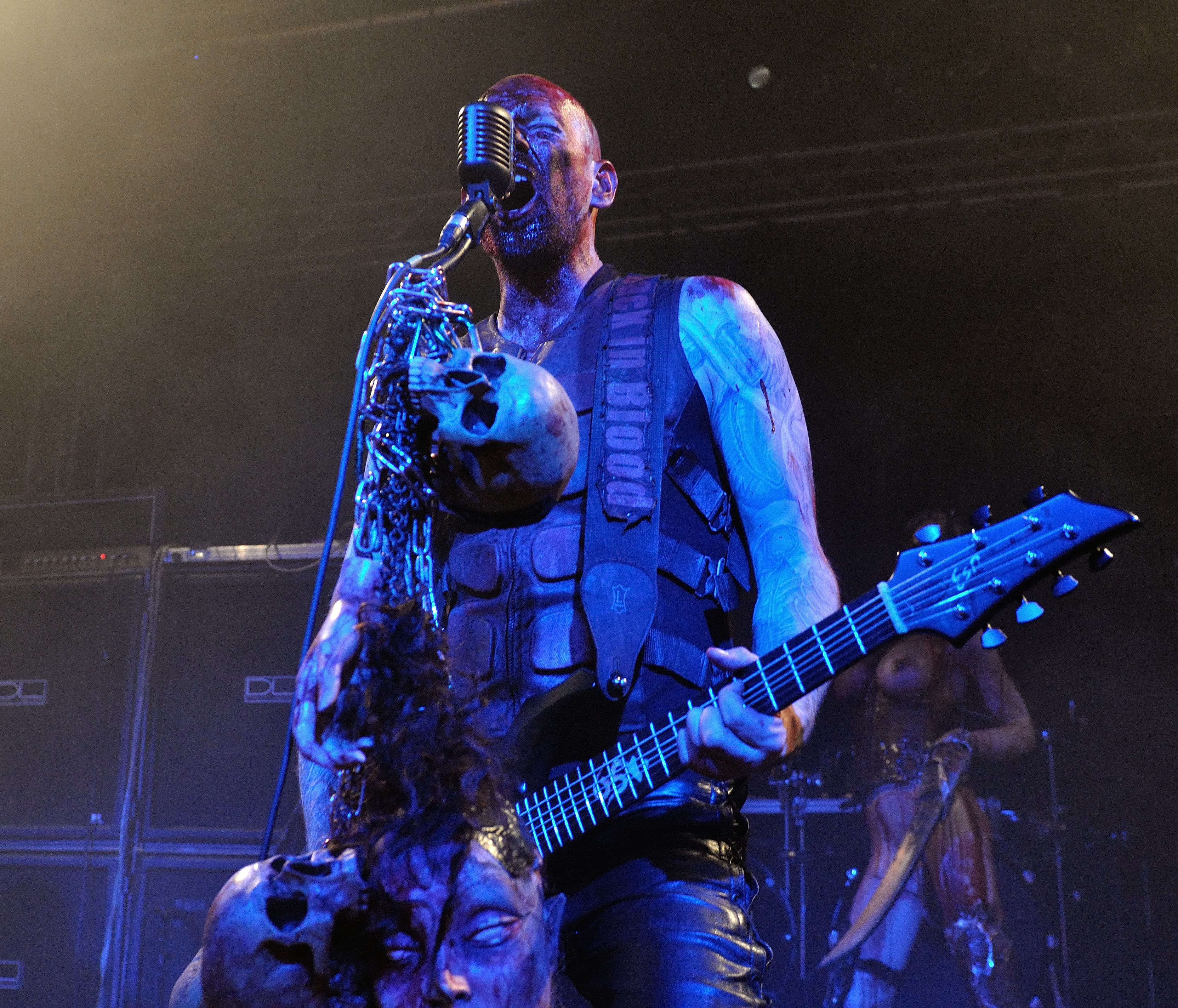 Debauchery at Hatefest 2015 in Berlin.